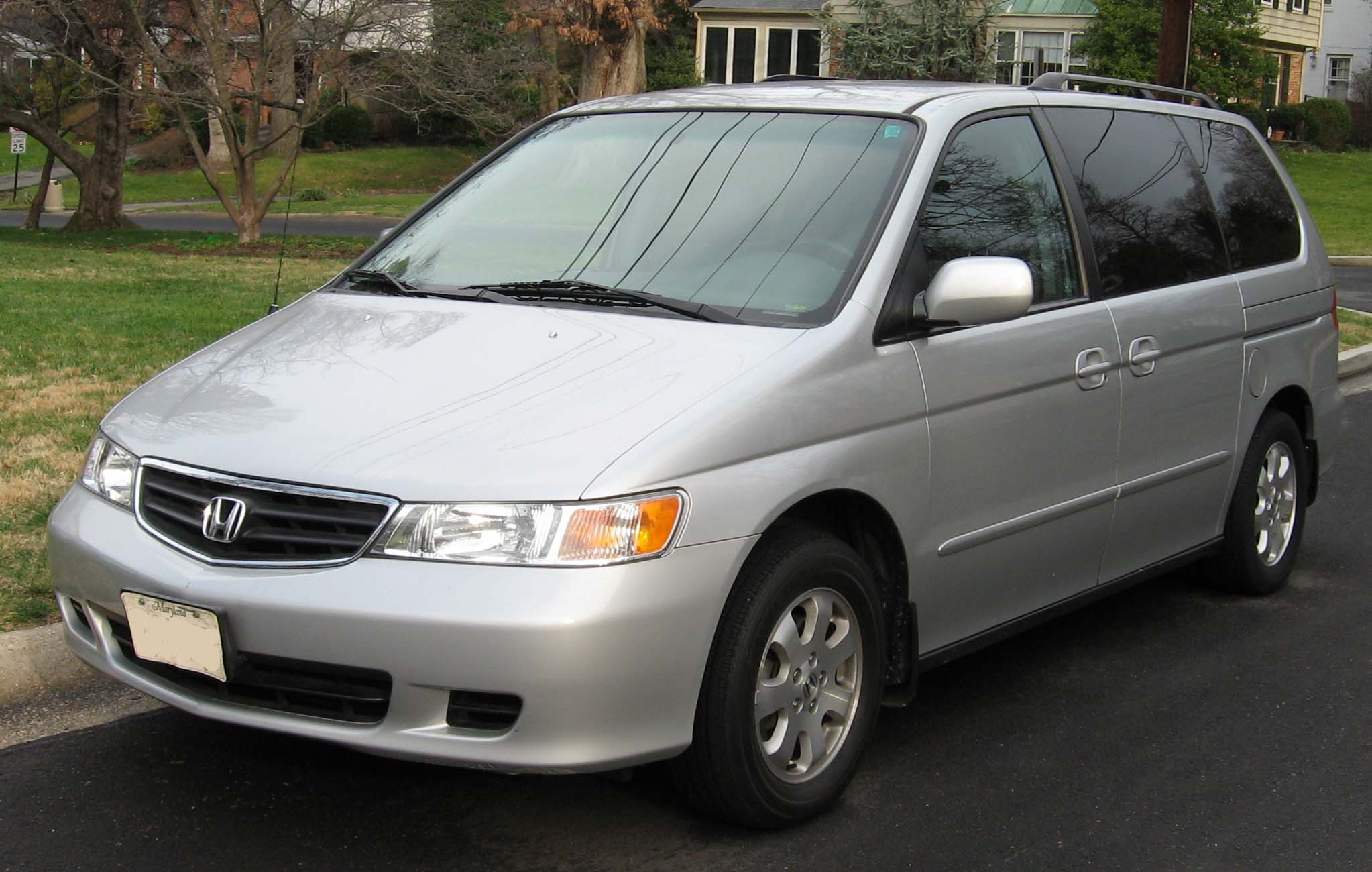 2002-2004 Honda Odyssey photographed in USA.